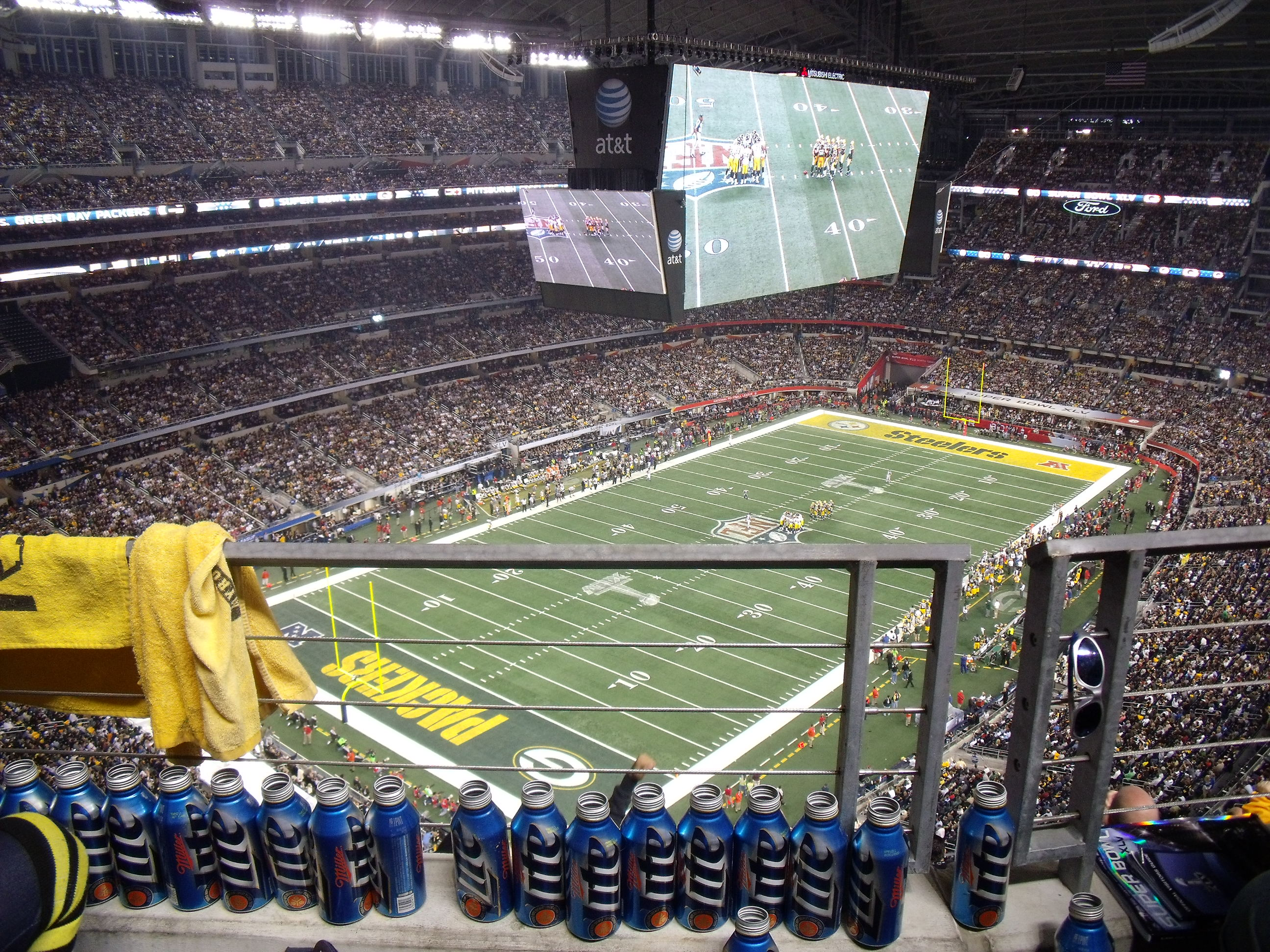 The game was played on February 6, 2011, at Cowboys Stadium in Arlington, Texas. The Packers defeated the Steelers by the score of 31–25.